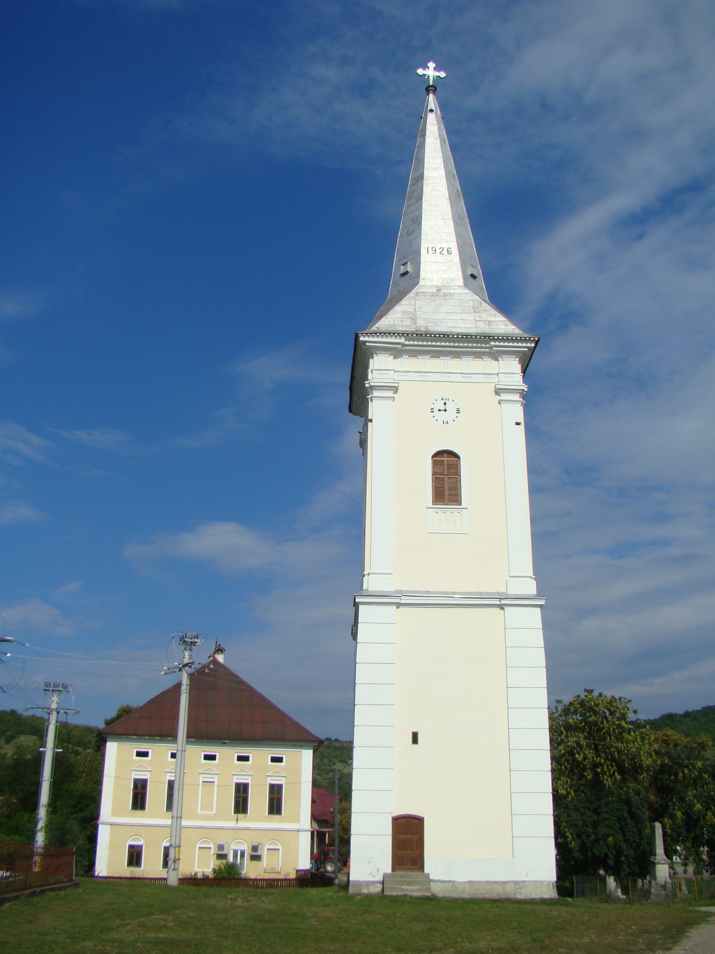 Lutheran church in Petriș, Bistrița-Năsăud county, Romania